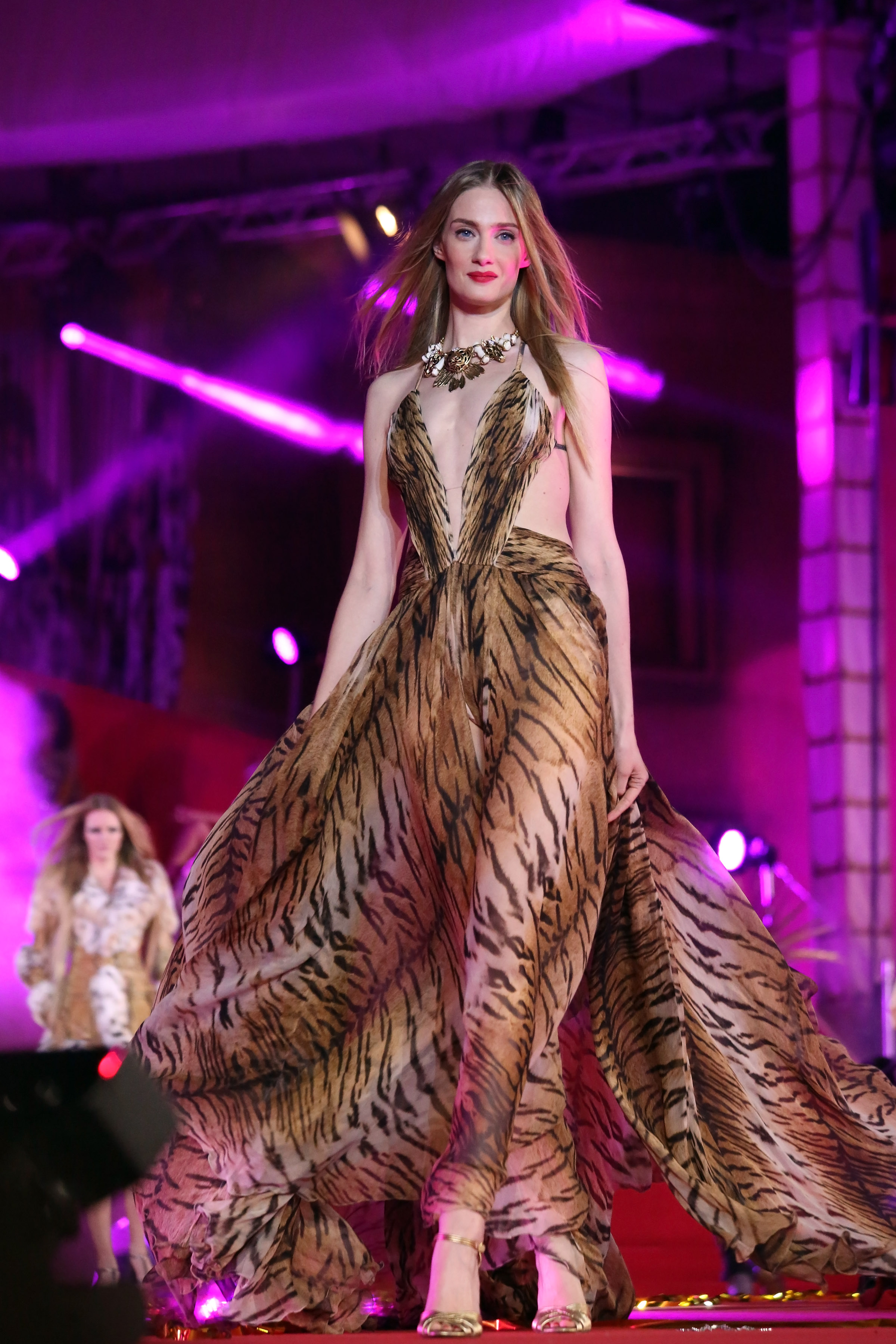 Eva Riccobono, fashion show by Roberto Cavalli, opening of Life Ball 2013 at the city hall of Vienna, Vienna, Austria.